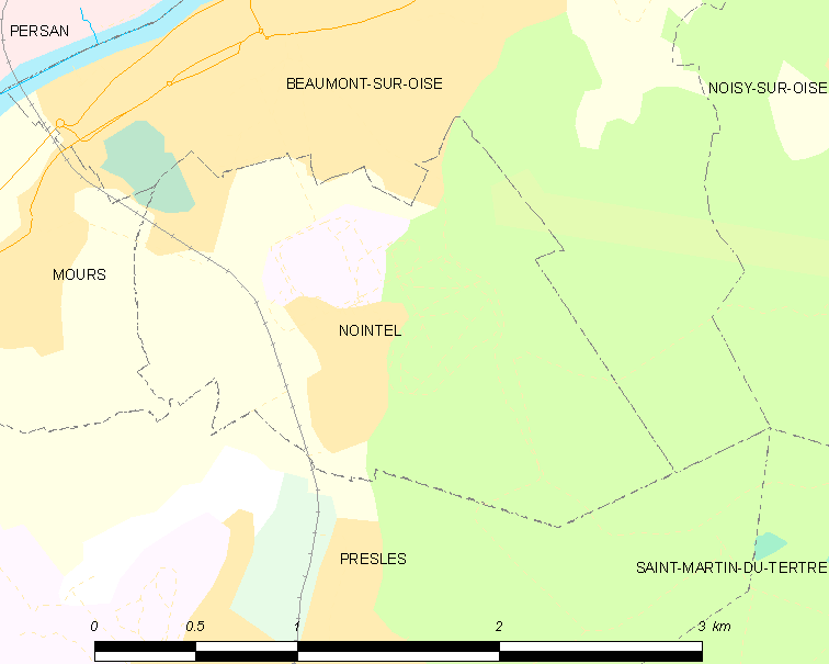 Map of French municipality Nointel